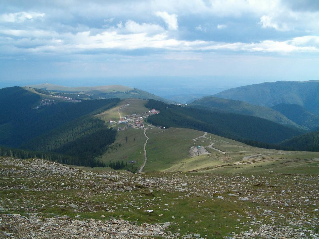 Transalpina road in Parâng Mountains, near Rânca, Gorj County, Romania